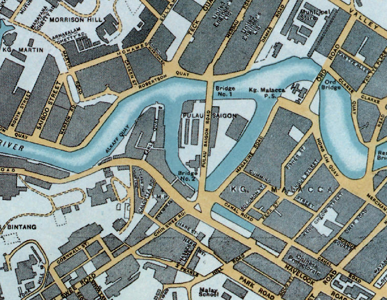 Pulau Saigon, Island of Singapore River, Singapore